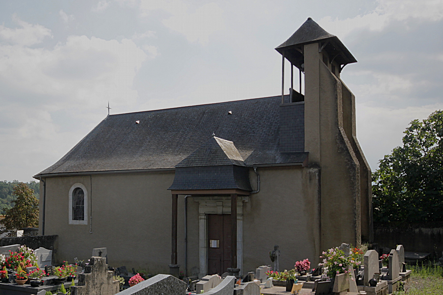 The church at Angos in the Hautes-Pyrenees, showing the bell gable.